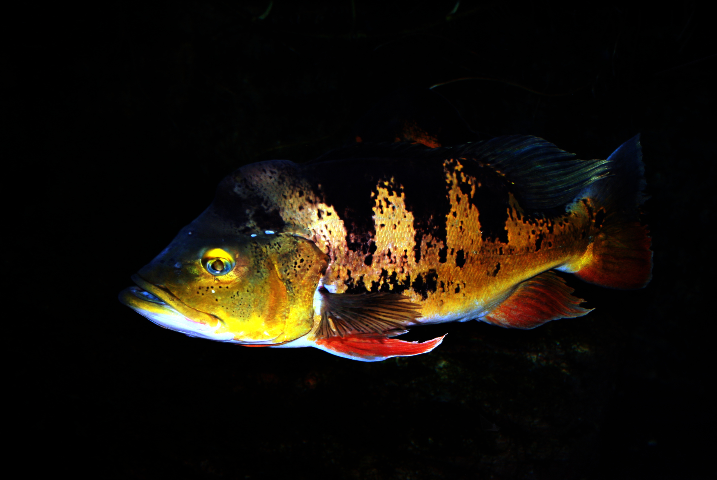 Fish Peacock Cichlid, Cichla ocellaris in ZOO Dvůr Králové, Czech Republic